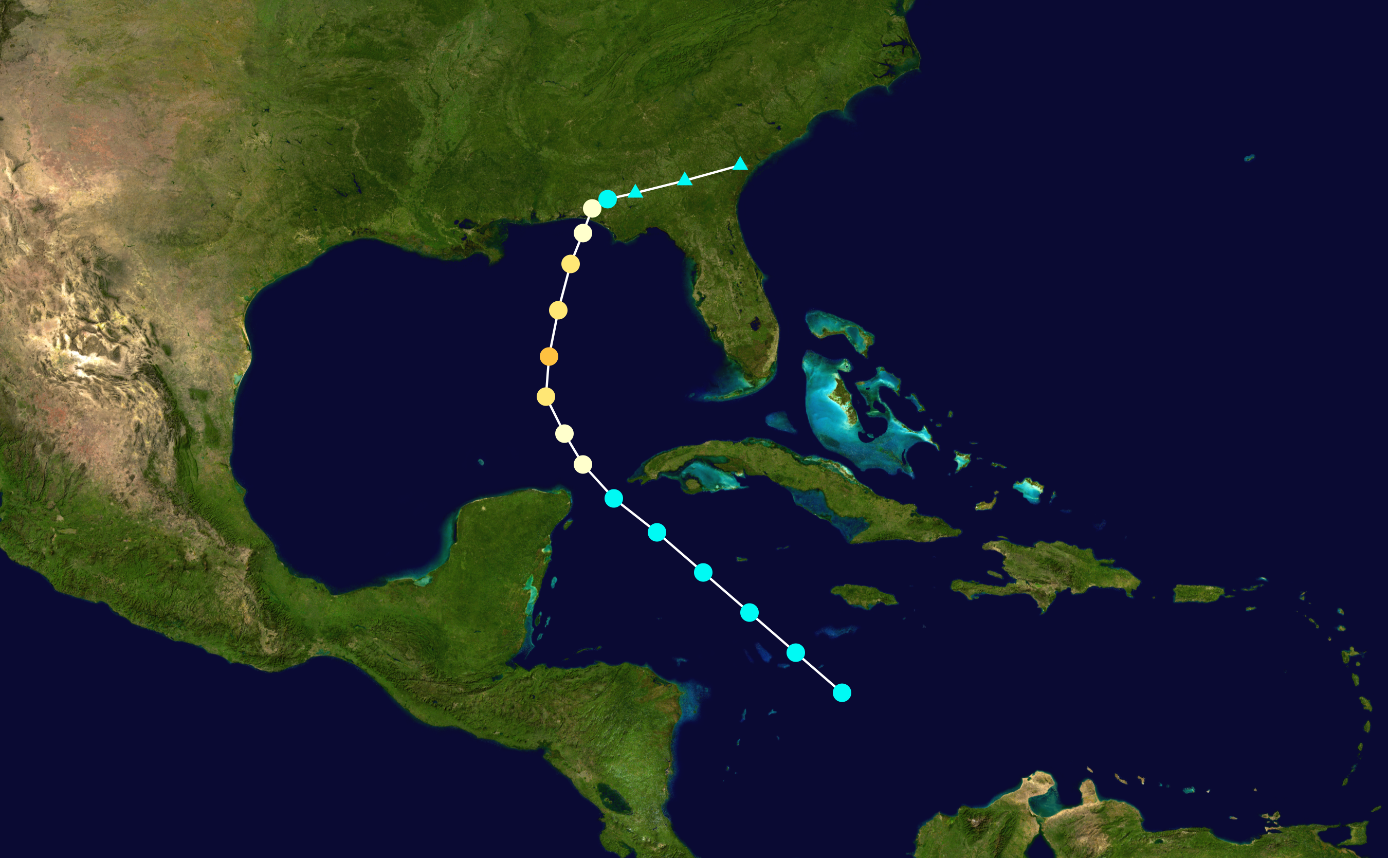 Track map of Hurricane Florence of the 1953 Atlantic hurricane season. The points show the location of the storm at 6-hour intervals. The colour represents the storm's maximum sustained wind speeds as classified in the Saffir–Simpson hurricane wind scale (see below), and the shape of the data points represent the nature of the storm, according to the legend below. Saffir–Simpson hurricane wind scale Tropical depression≤38 mph≤62 km/h Category 3111–129 mph178–208 km/h Tropical storm39–73 mph63–118 km/h Category 4130–156 mph209–251 km/h Category 174–95 mph119–153 km/h Category 5≥157 mph≥252 km/h Category 296–110 mph154–177 km/h Unknown Storm typeTropical cycloneSubtropical cycloneExtratropical cyclone / Remnant low / Tropical disturbance